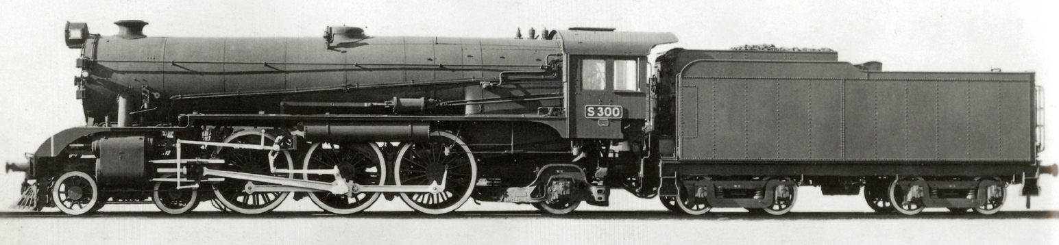 Builder's photo of Victorian Railways S class 4-6-2 locomotive No. S 300, 1928.